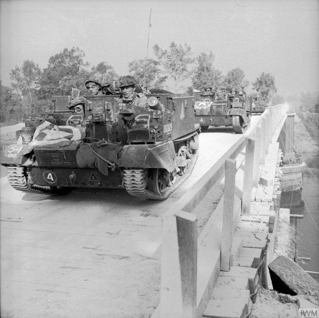 The British Army in the Normandy Campaign 1944 Carriers of 1st (Motor) Grenadier Guards, 5th Guards Armoured Brigade, Guards Armoured Division, cross 'Euston Bridge' as they deploy for Operation 'Goodwood', 18 July 1944.